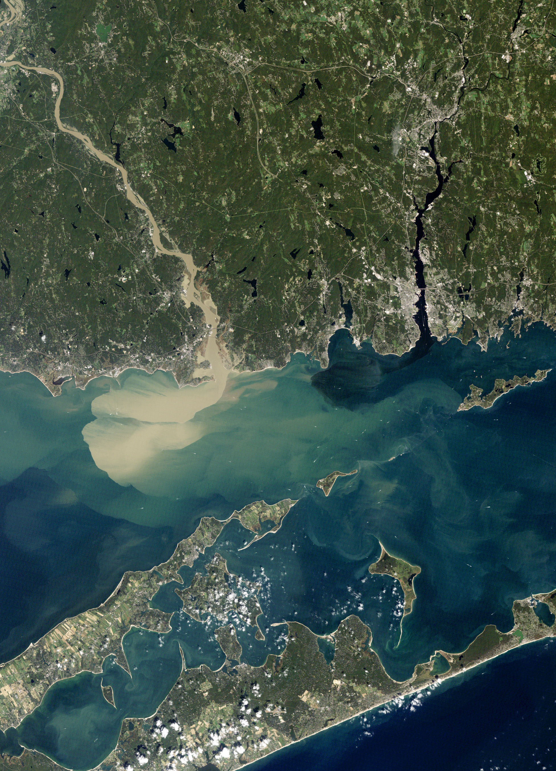 True-color satellite image of the Connecticut River was spewing muddy sediment into Long Island Sound and wrecking the region's farmland just before harvest nearly a week after Hurricane Irene drenched New England with rainfall.